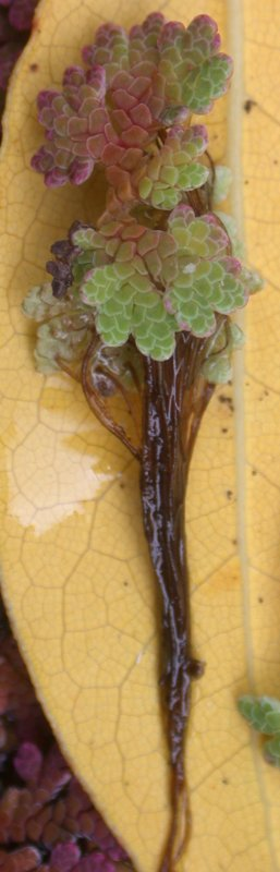 Red azolla, a fast growing aquatic plant - total length of this plant is 40mm